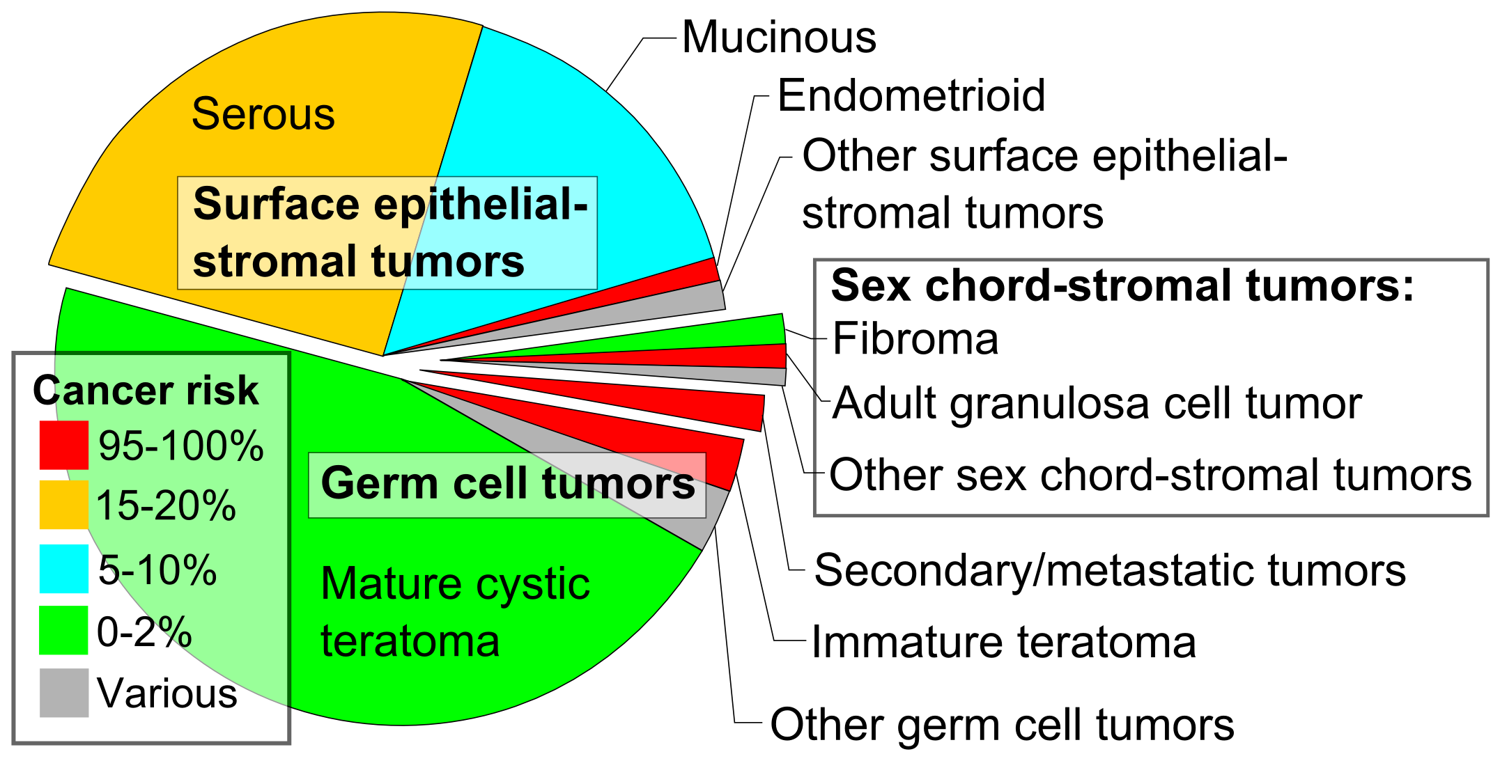 Ovarian tumors by incidence and risk of ovarian cancer. Reference: (2014). "Spectrum of ovarian tumors in a referral hospital in Nepal". Journal of Pathology of Nepal 4 (7): 539–543. ISSN 2091-0908. Minor adjustment for mature cystic teratomas (0.17 to 2% risk of ovarian cancer): (2012). "Malignant Transformation in a Mature Teratoma with Metastatic Deposits in the Omentum: A Case Report". Case Reports in Pathology 2012: 1–3. ISSN 2090-6781.